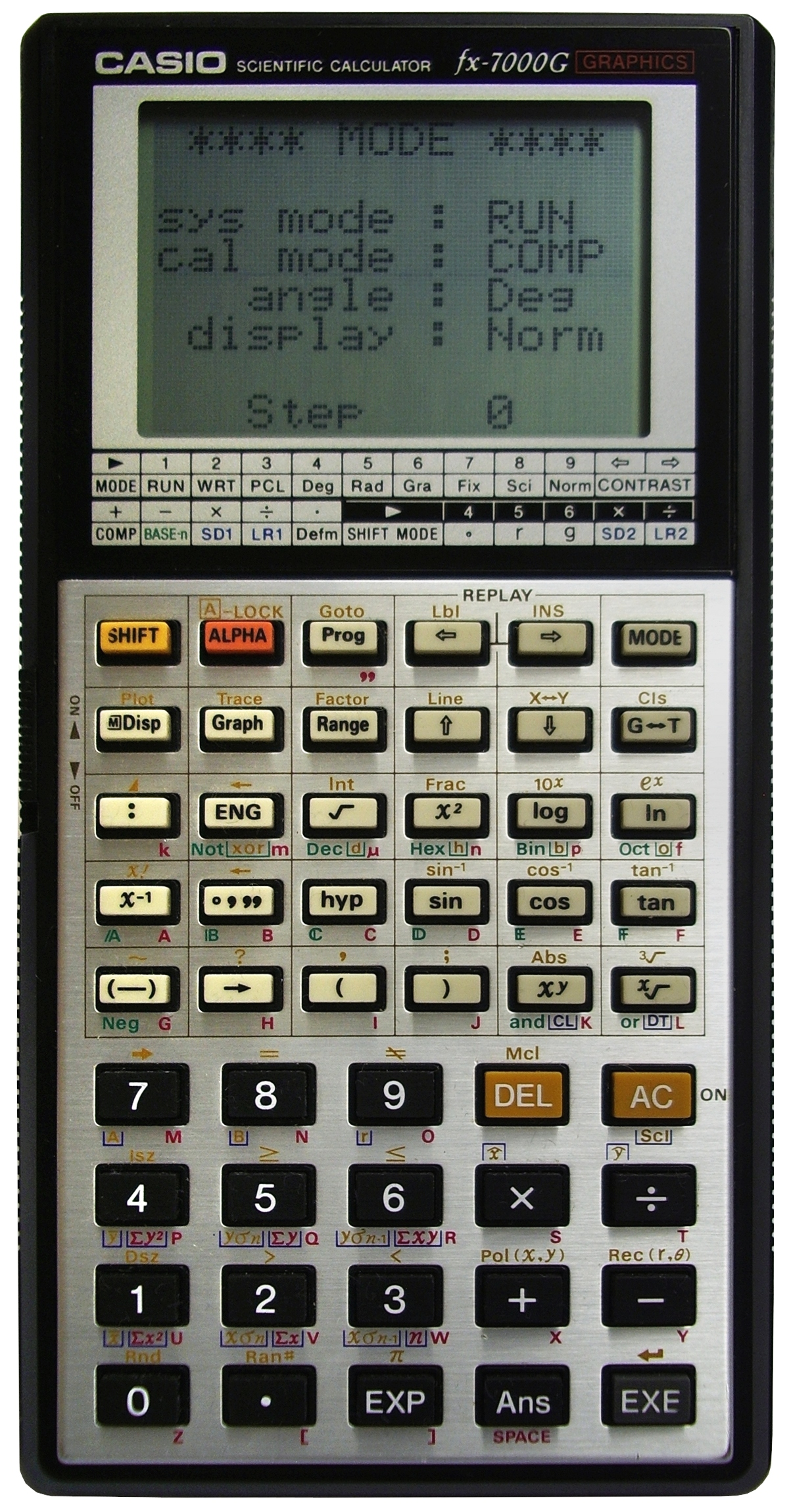 Casio fx-7000G, full length. The power-on switch is a small slider half-way up the left-hand side.